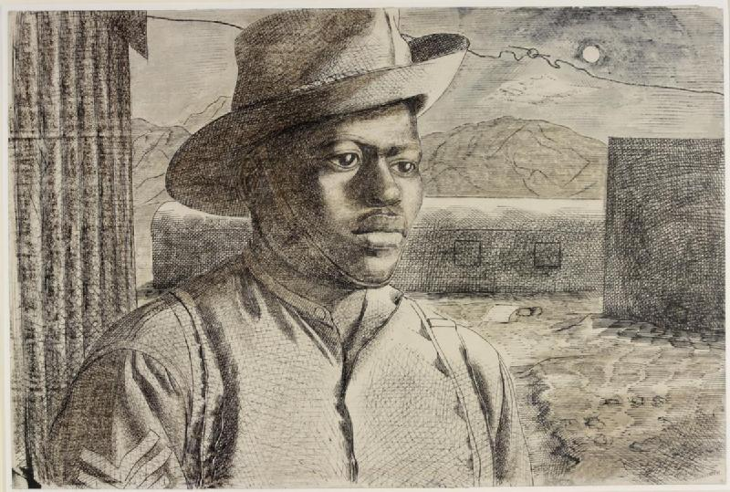 Sergeant Samson- 1975th Bechuana Coy, 64 Group, Army Auxiliary Pioneer Corps, near Jdeide, Lebanon image: a head and shoulders portrait of African soldier Sergeant Samson of the 1975th Bechuana Company, Army Auxiliary Pioneer Corps. He wears a slouch-style hat and stands within a military compound, a dry and mountainous landscape visible behind.